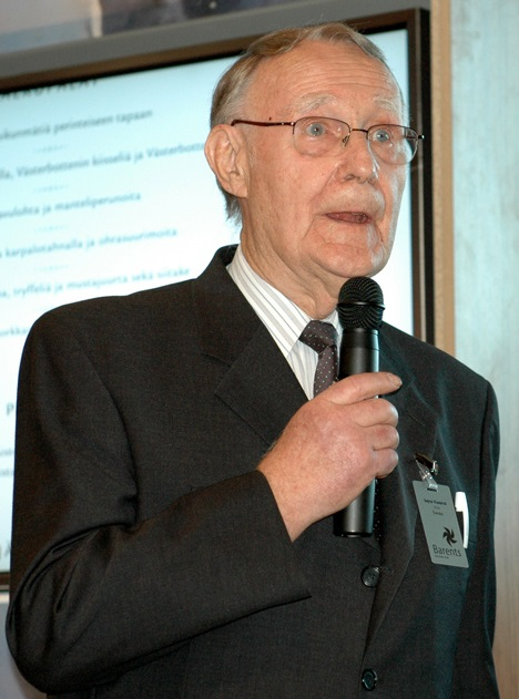 Ingvar Kamprad, founder of IKEA in Haparanda, Sweden at the Midnight Ministerial Meet.